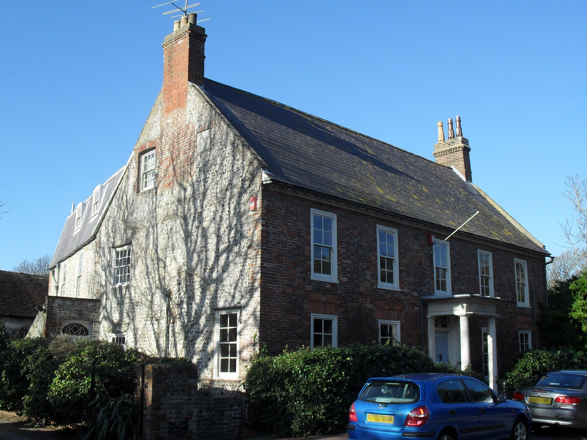 Hillside, The Green, Rottingdean, City of Brighton and Hove, England. A house built in 1724. Listed at Grade II* by English Heritage (IoE Code 481351)